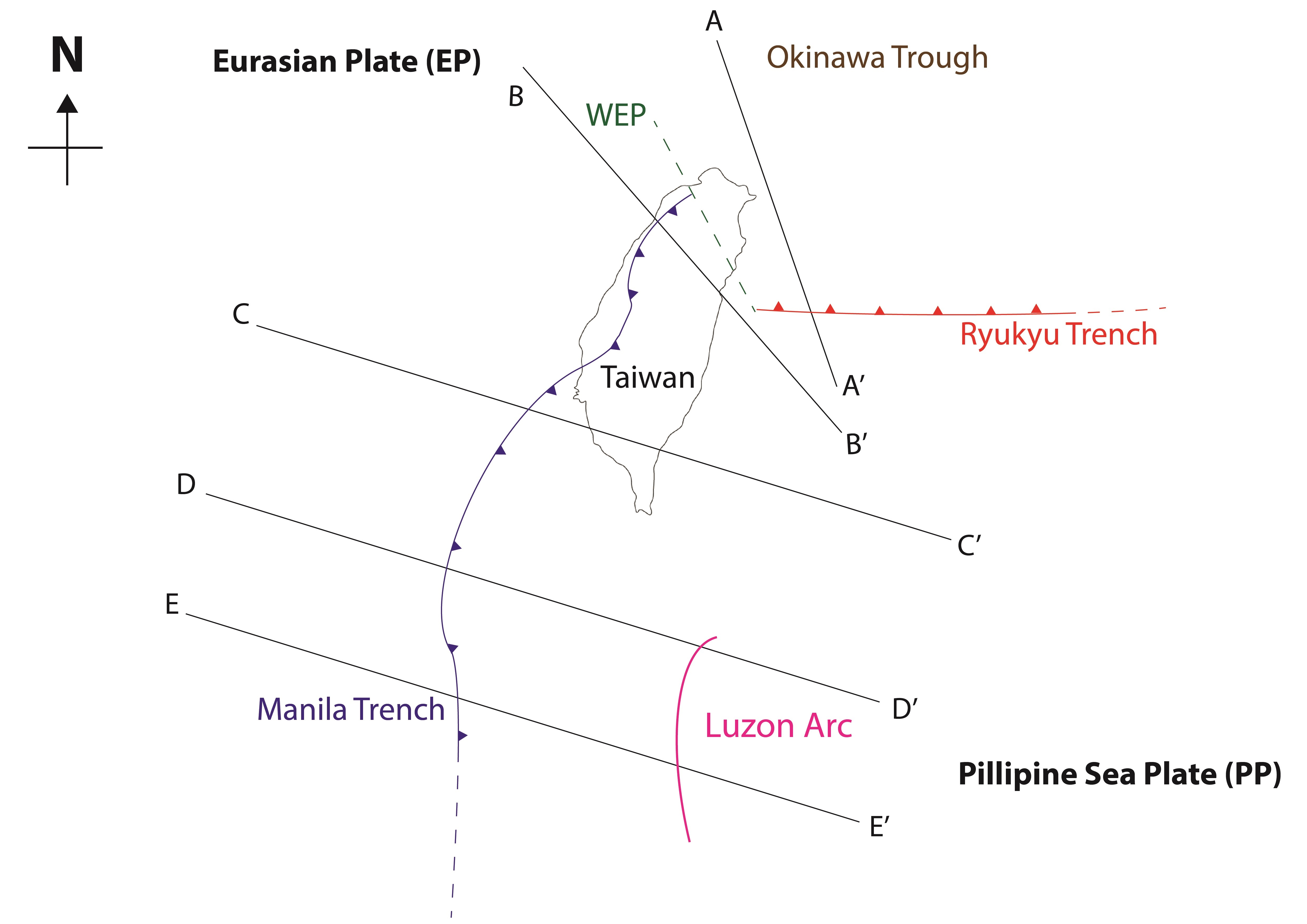 Taiwan